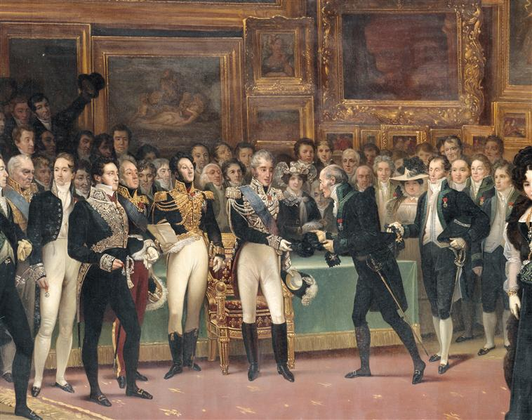 This is a detail image of the full copy of Heim's painting (the original is in the Louvre). The copy was commissioned by France's Ministry of Education in 1892.